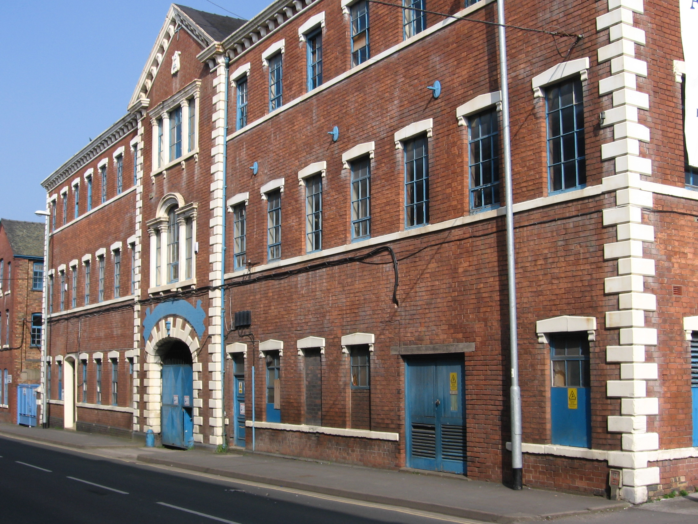 Longton - Aynsley Works - south-west side